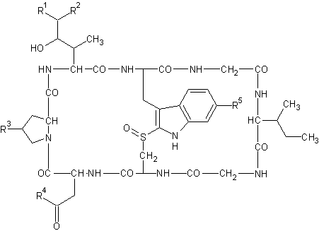 Structure formula of Amanitine